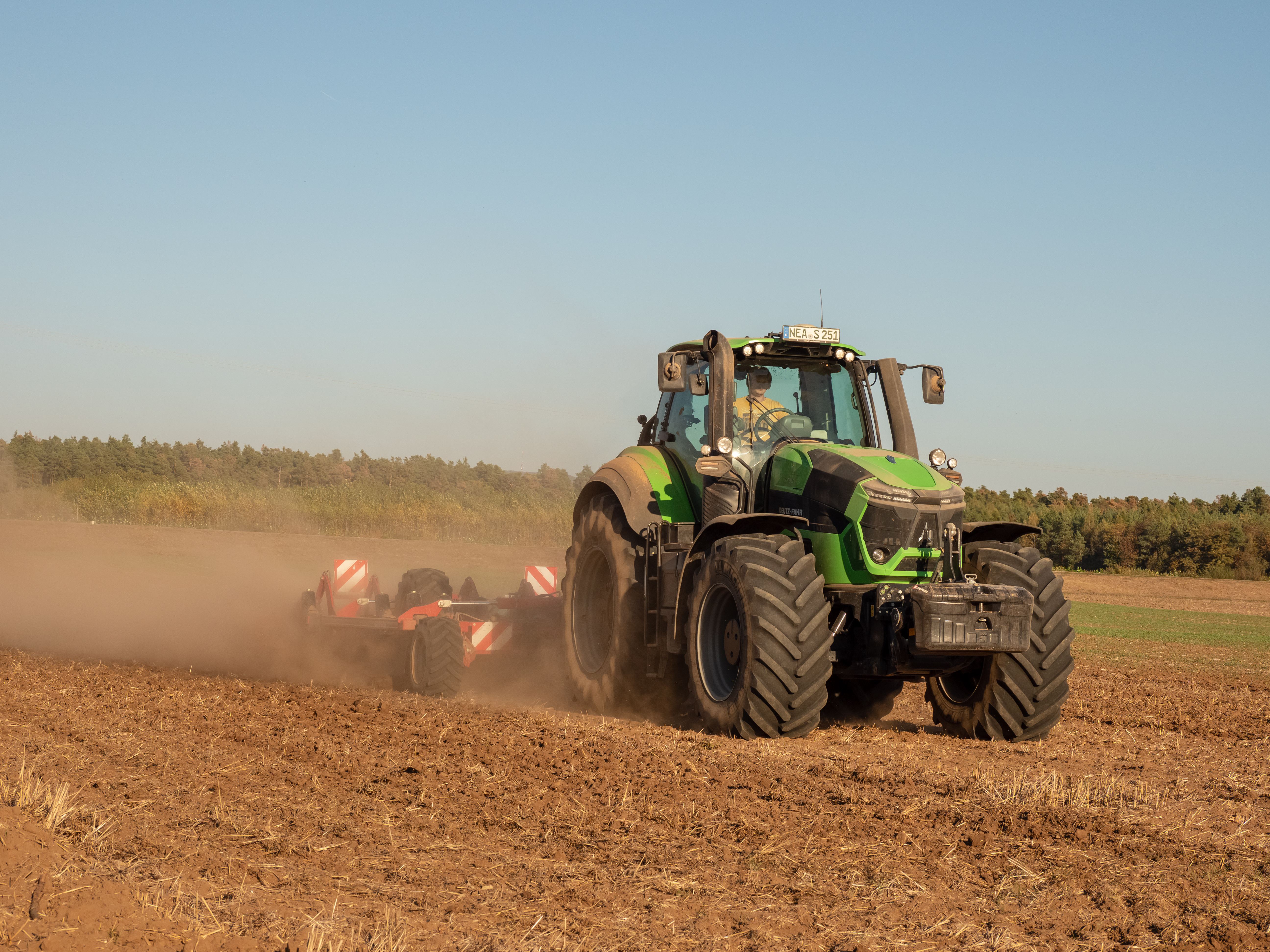 Deutz tractor series 9 with harrow